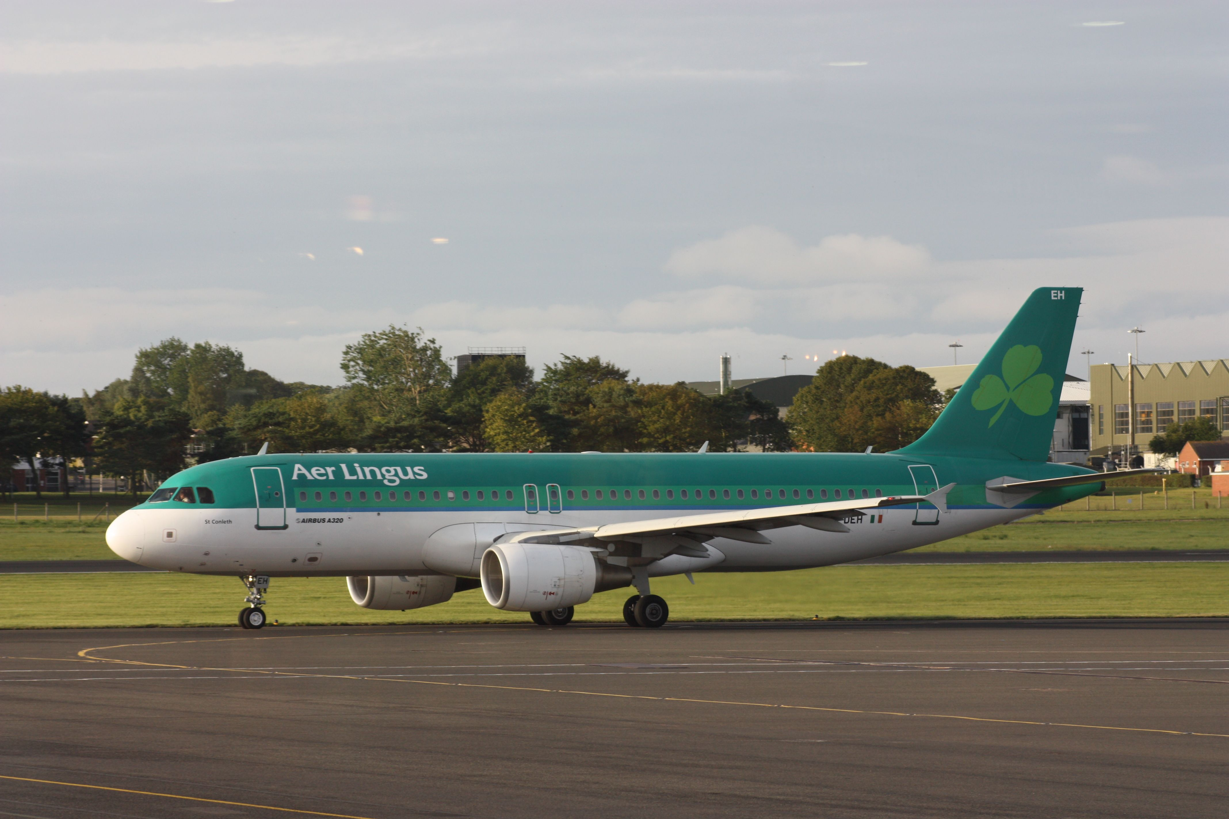 Aer Lingus (EI-DEH) Airbus A320, Belfast International Airport, Aldergrove, County Antrim, Northern Ireland, July 2011